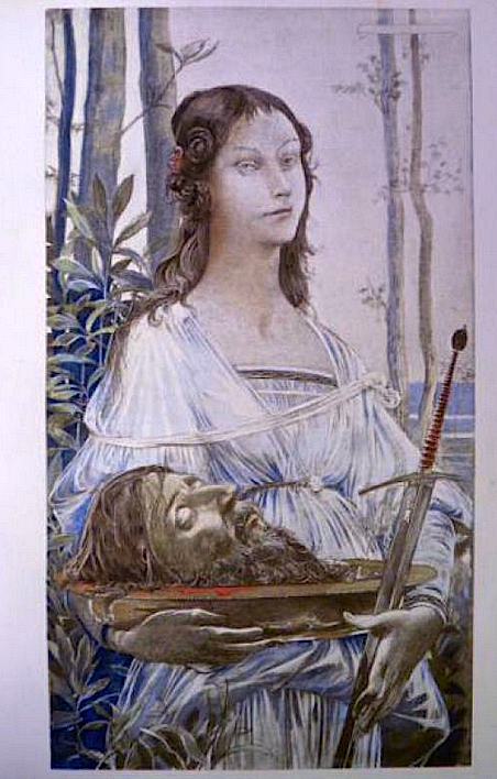 Salomé by Luc-Olivier Merson, lithographic print from L'Estampe moderne, vol. III, Paris, F. Champenois.